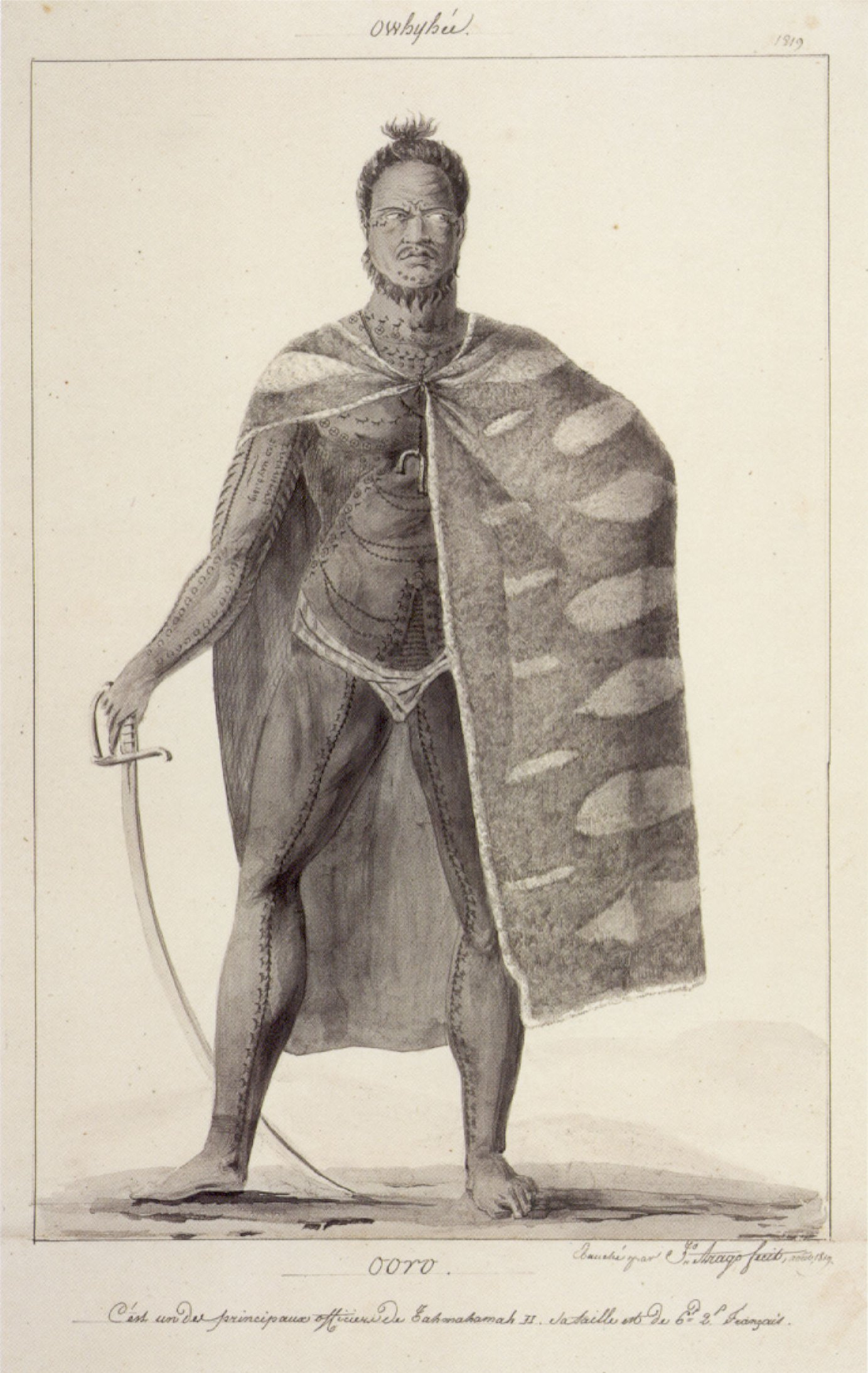 Ooro, One of the Principal Officers of Kamehameha II, pen and ink wash over graphite by Jacques Arago, 1819, Honolulu Museum of Art, accession 25702. Ooro is tattooed and wearing a feather cape.